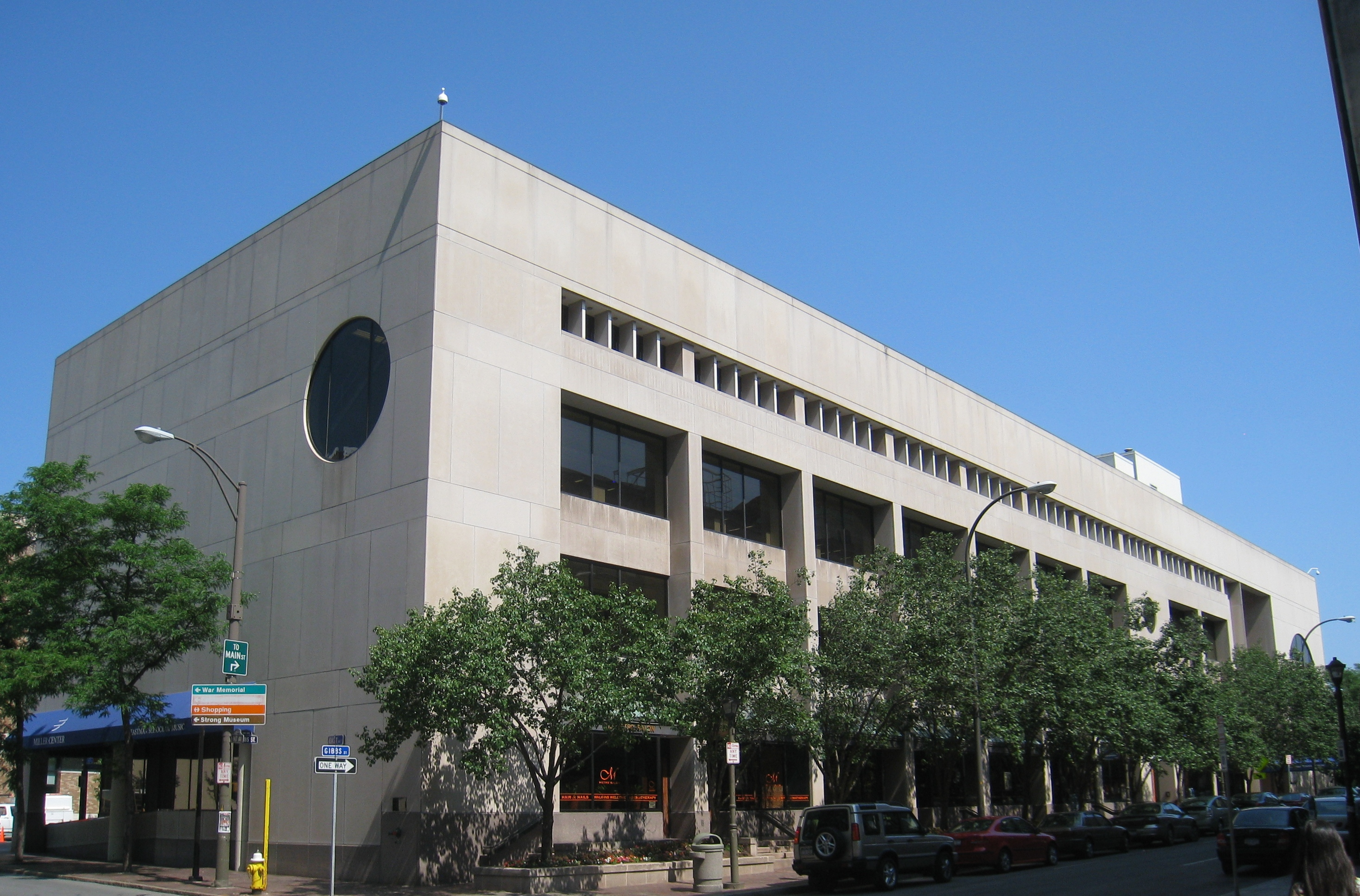 Eastman School of Music, Rochester, New York, USA - Sibley Music Library (Miller Center) exterior.